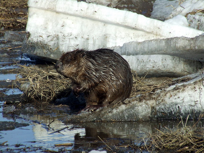 Castor fiber. Kaunas, Lithuania